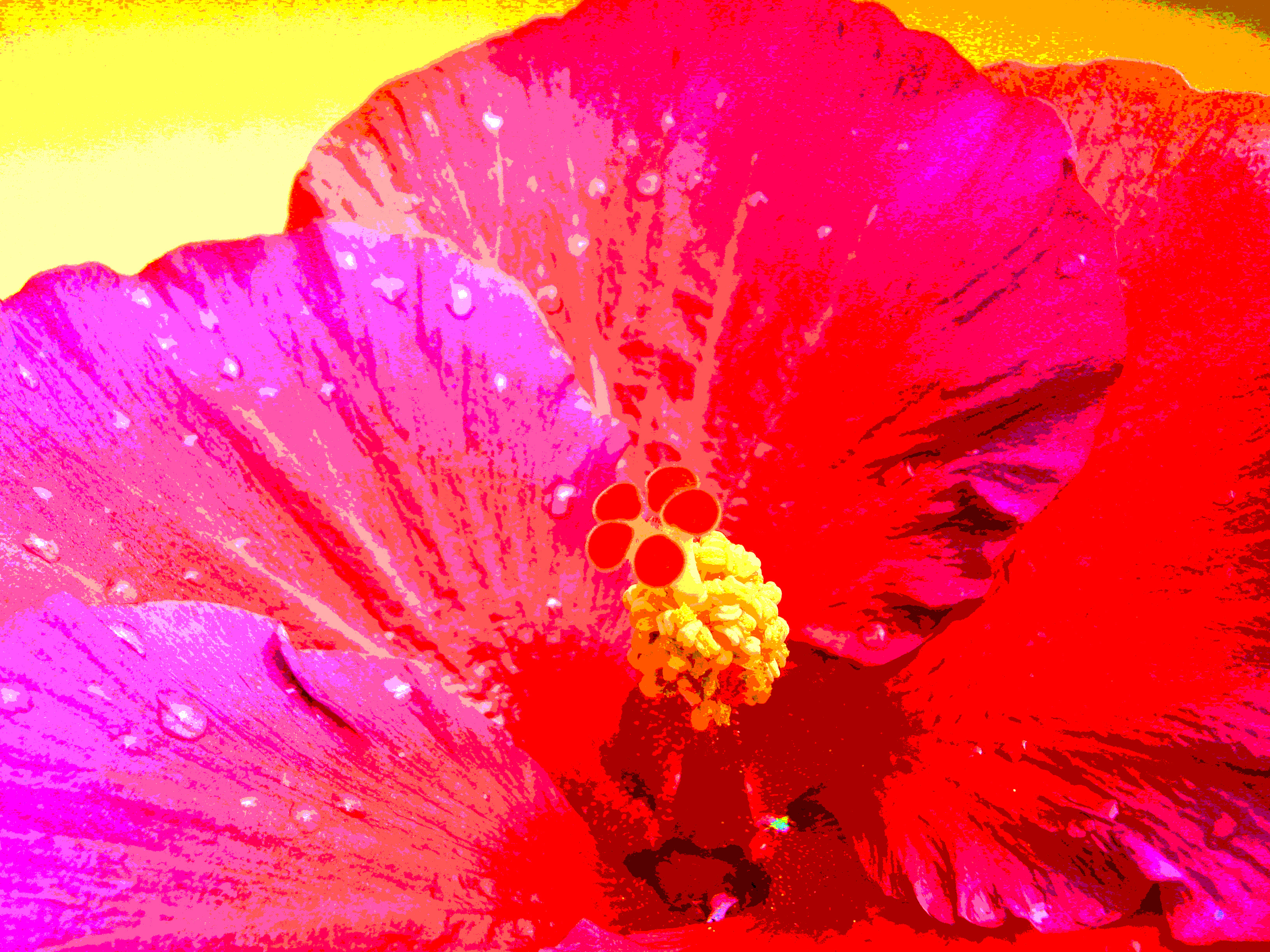 A posterized photograph of a hibiscus flower.